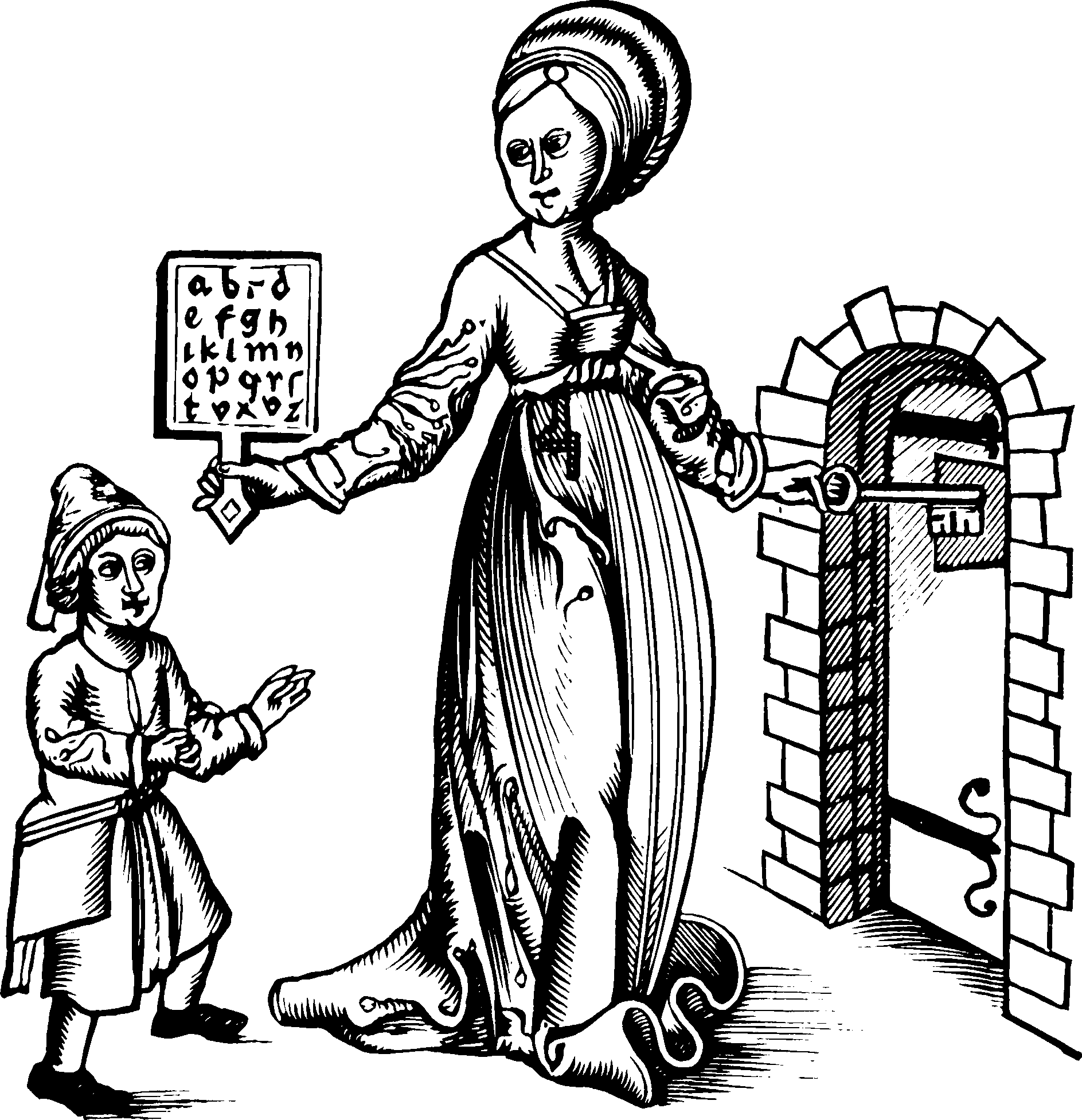 Fragment of an illustration from Gregor Reisch’s Margarita Philosophica (earliest edition printed in 1486).